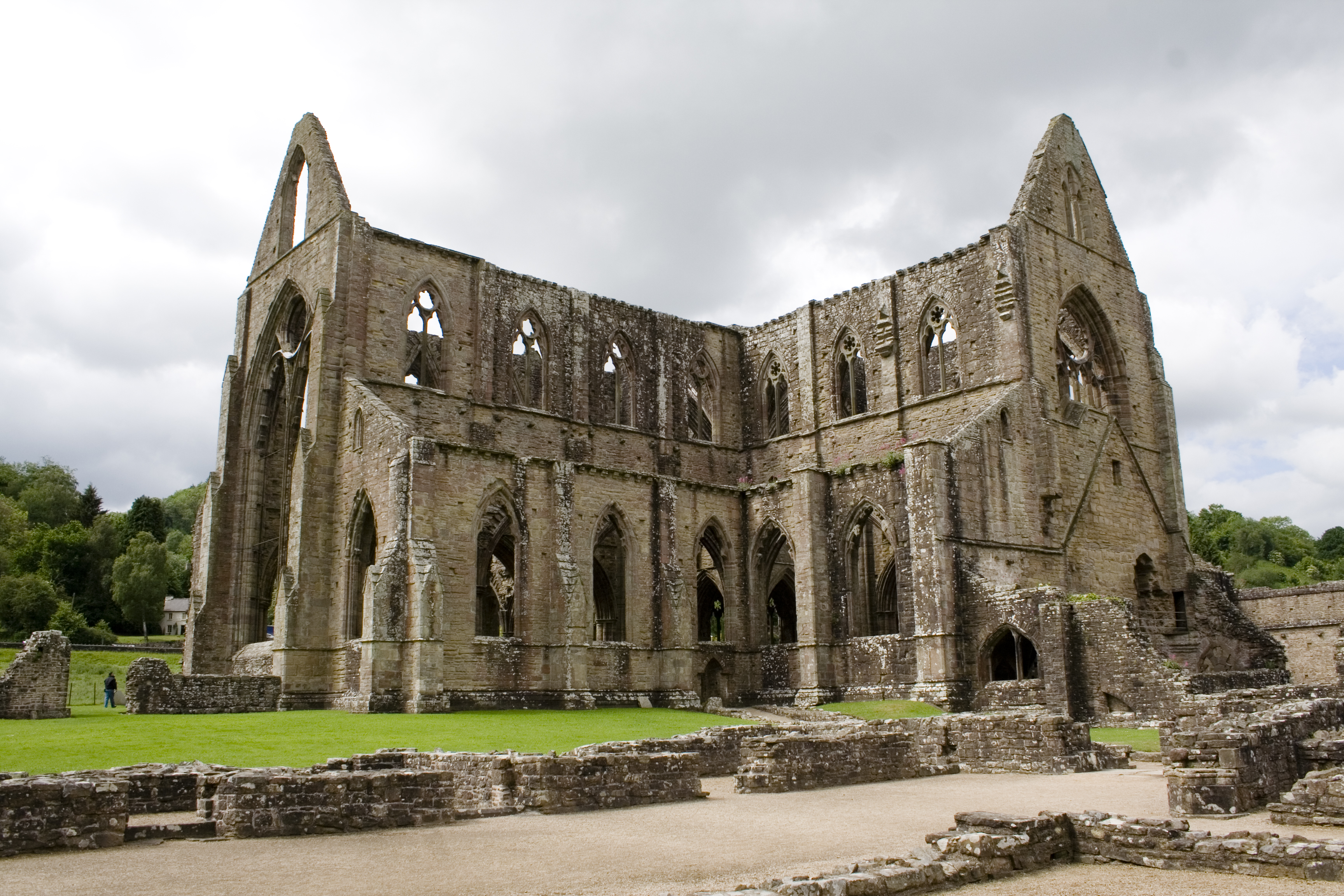 Tintern Abbey , founded 1136.